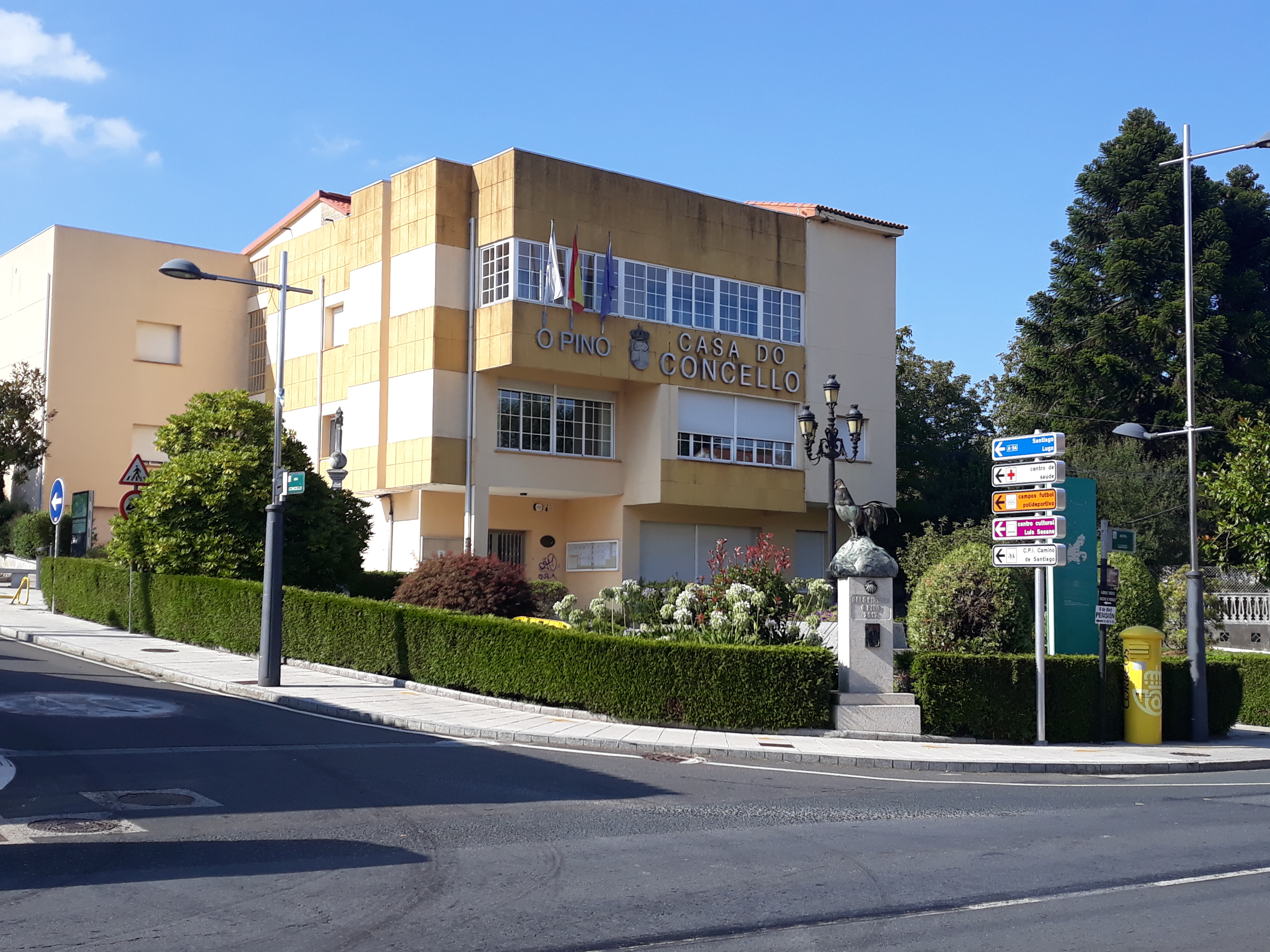 O Pino town hall, A Coruña province, Galicia, Spain.